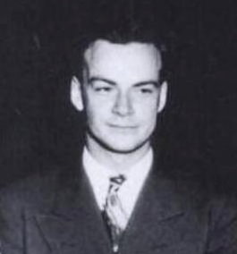 Richard P. Feynman